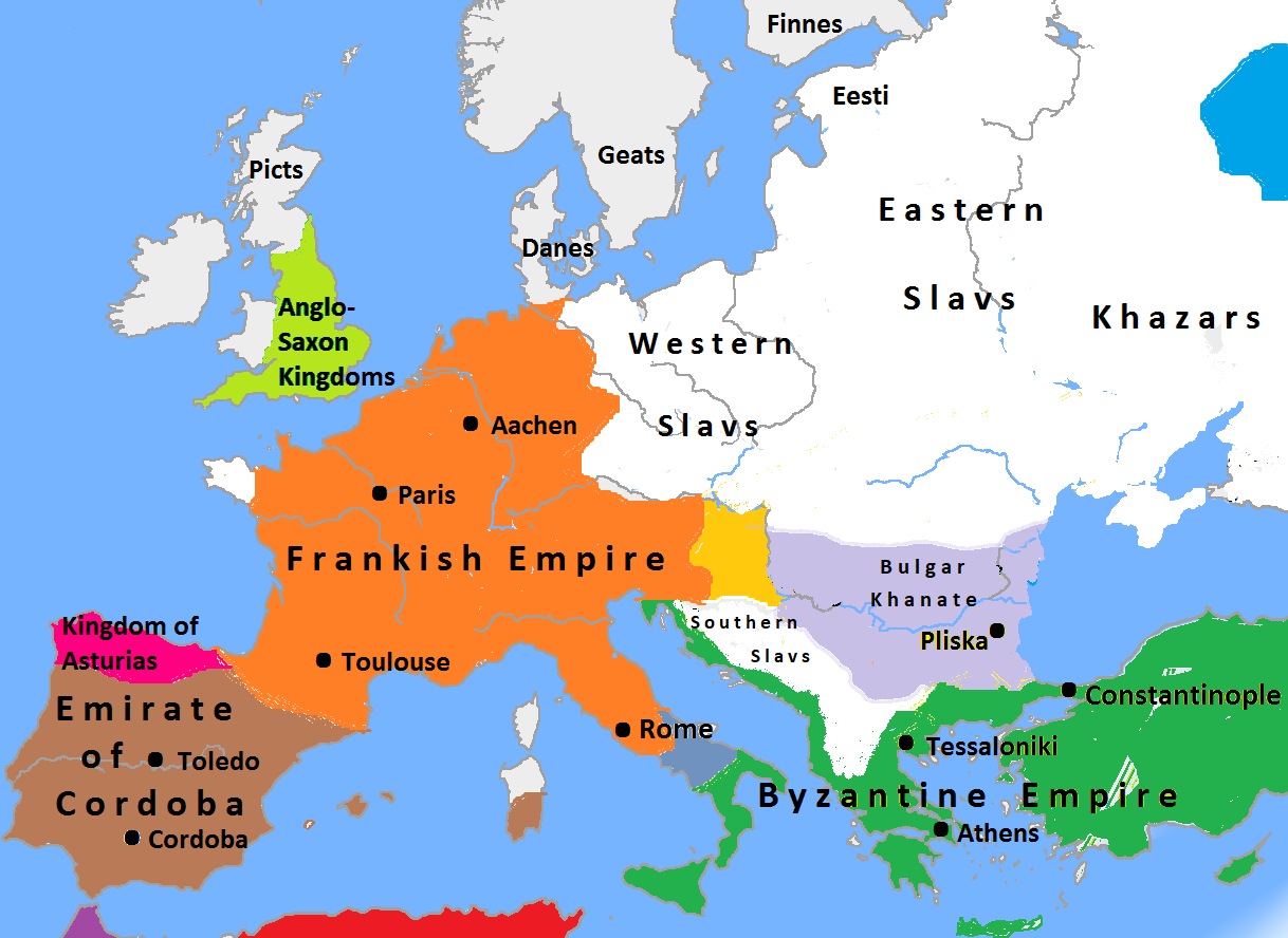 Europe in 814